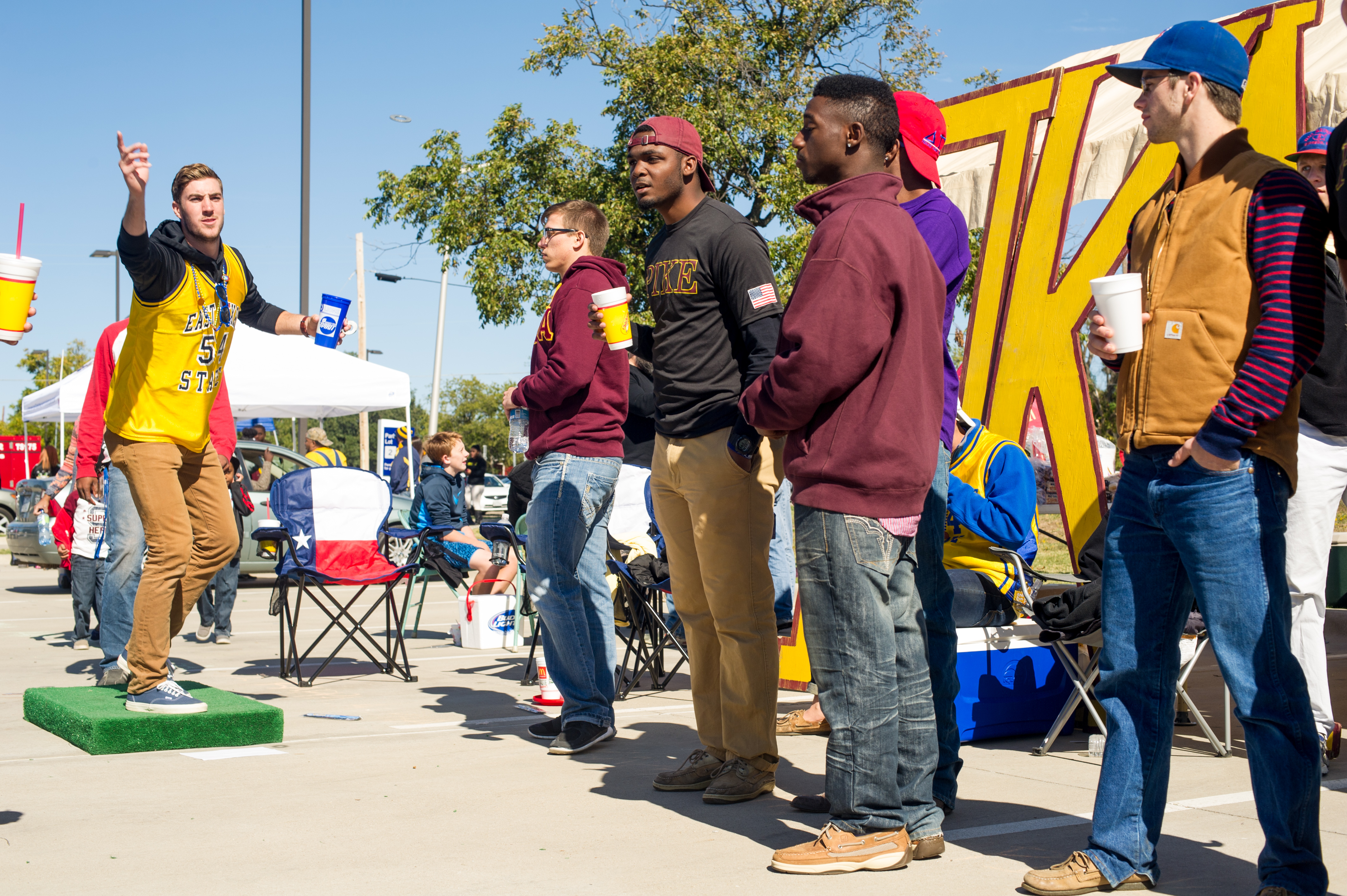 14497-Homecoming Football vs McMurray-9338.jpg Scenes from the McMurry War Hawks vs. Texas A&M–Commerce Lions football game and homecoming tailgate on November 1, 2014.